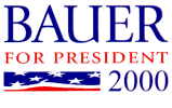 Gary Bauer presidential campaign, 2000